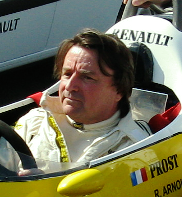 René Arnoux in the Renault H&C Classic Team. Historic cars at the World Series by Renault 2008 on Hungaroring, Budapest.